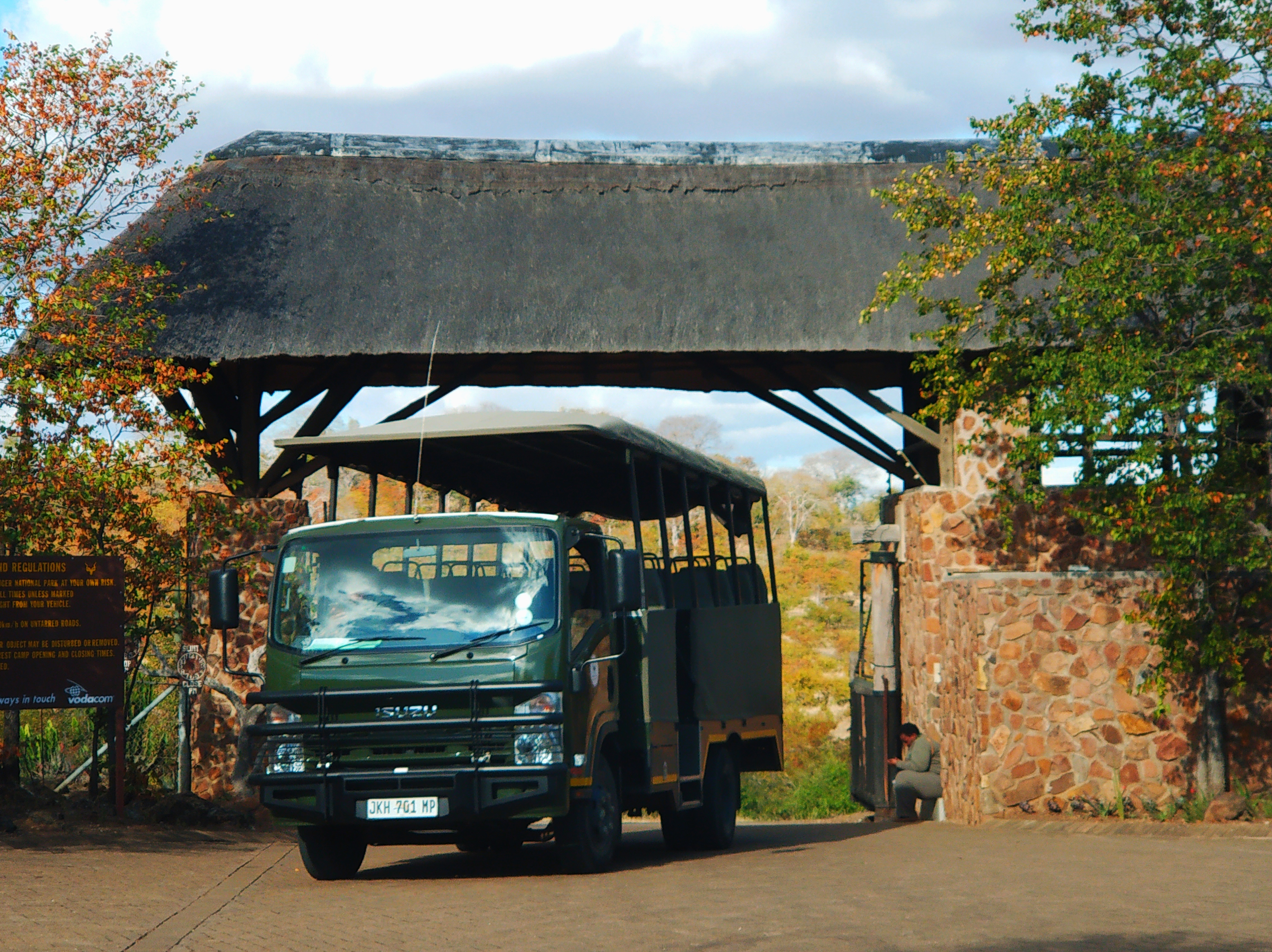 kruger park camp entrance with a ranger truck